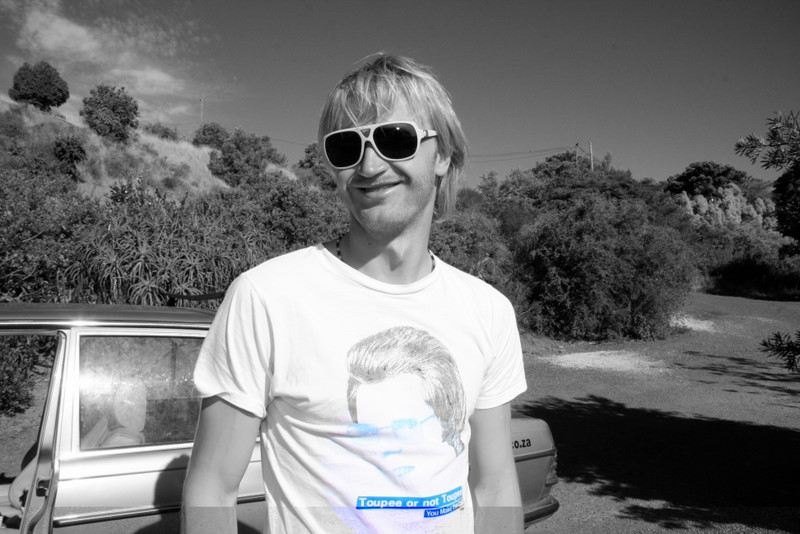 Krisjanis Tutans